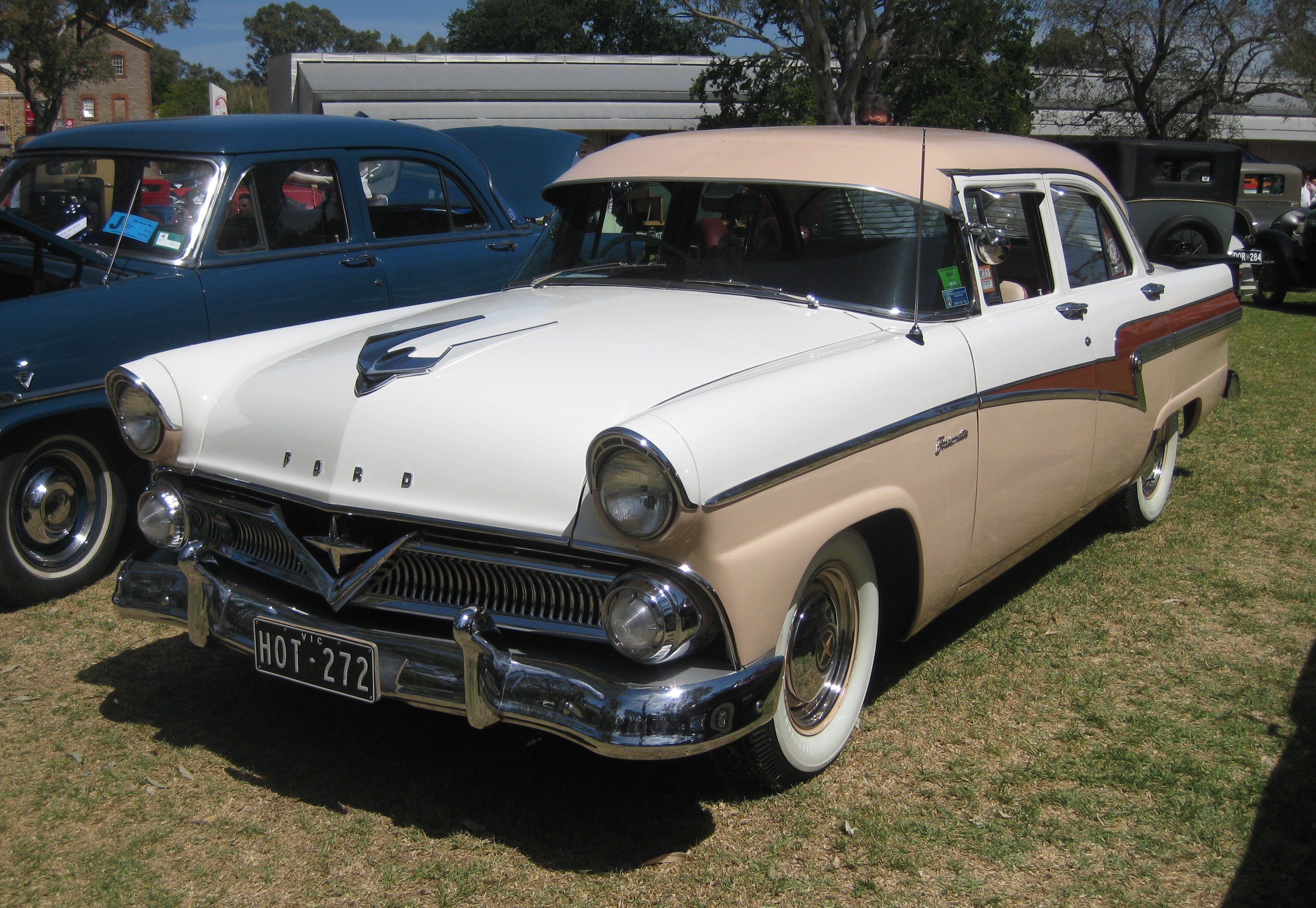 1958 Ford V8 Fordomatic. Ford Australia produced this model in 1958-59, as well as the Ford V8 Customline sedan (with manual transmission) and the Ford V8 Mainline Utility, all based on the 1955 US Ford.